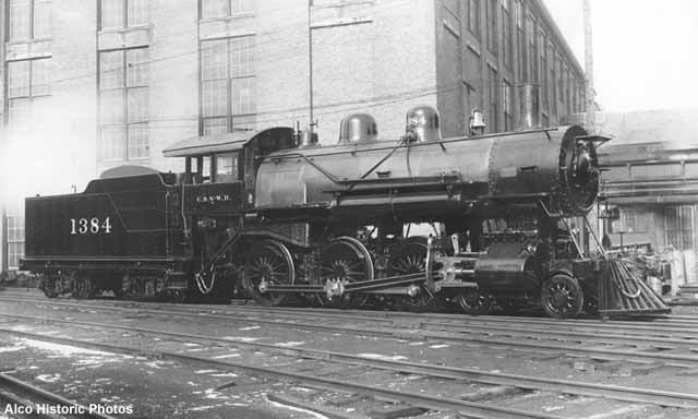 Builder's photo at American Locomotive Works of Chicago & Northwestern #1384, 1907